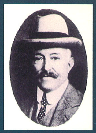 A photograph of Frank Bourne-Newton